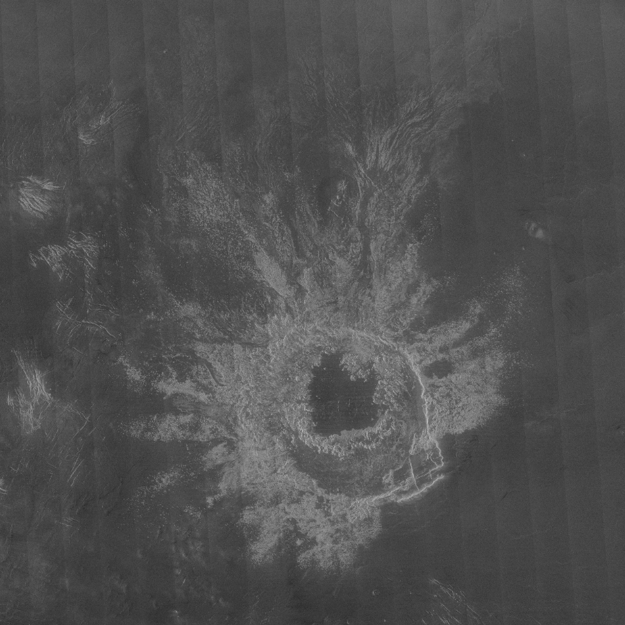 Maria Celeste crater on Venus by space probe Magellan.